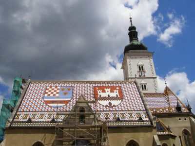 St. Mark's Church in Zagreb (Croatia)